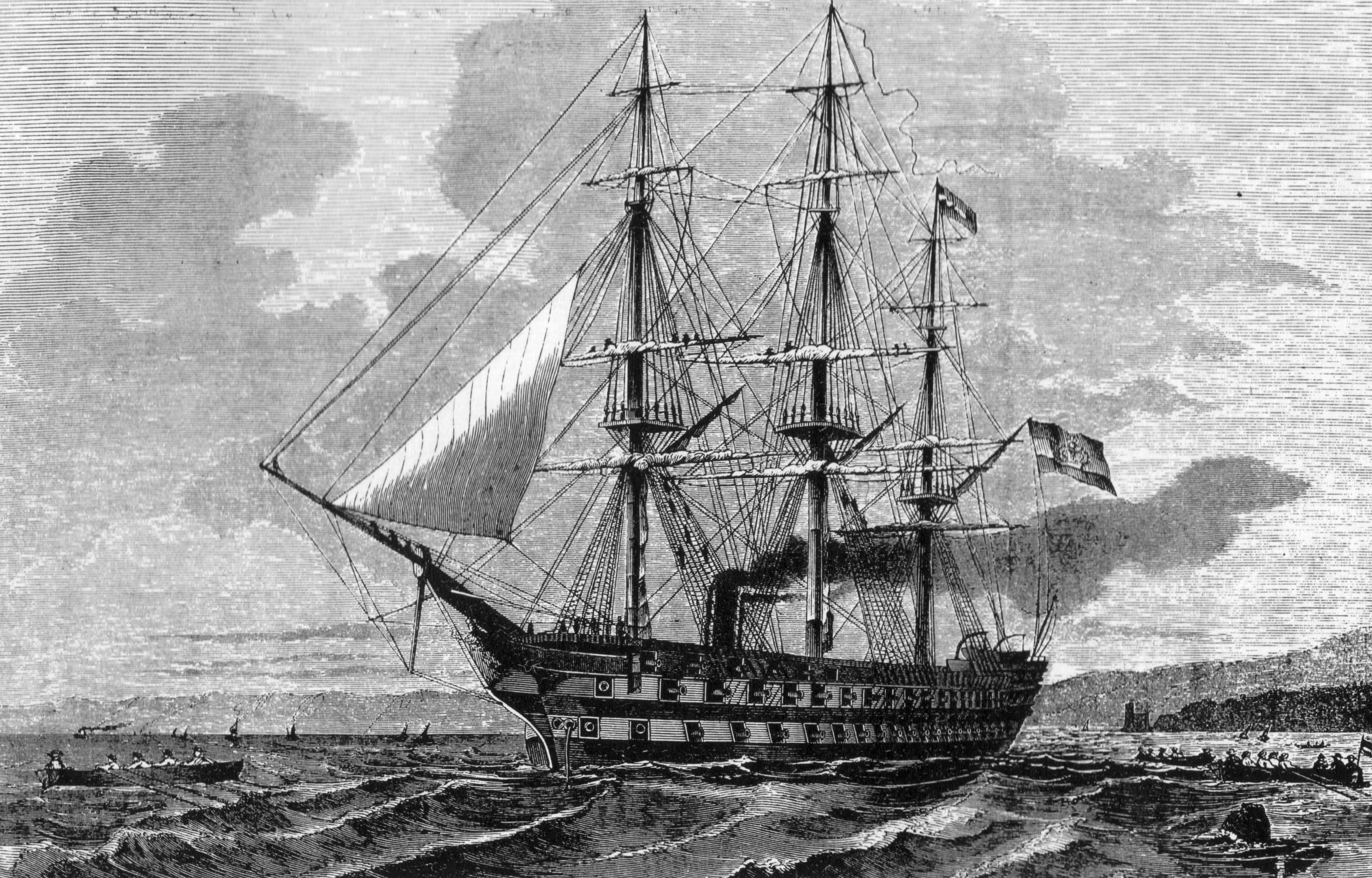 Imperial fleet.